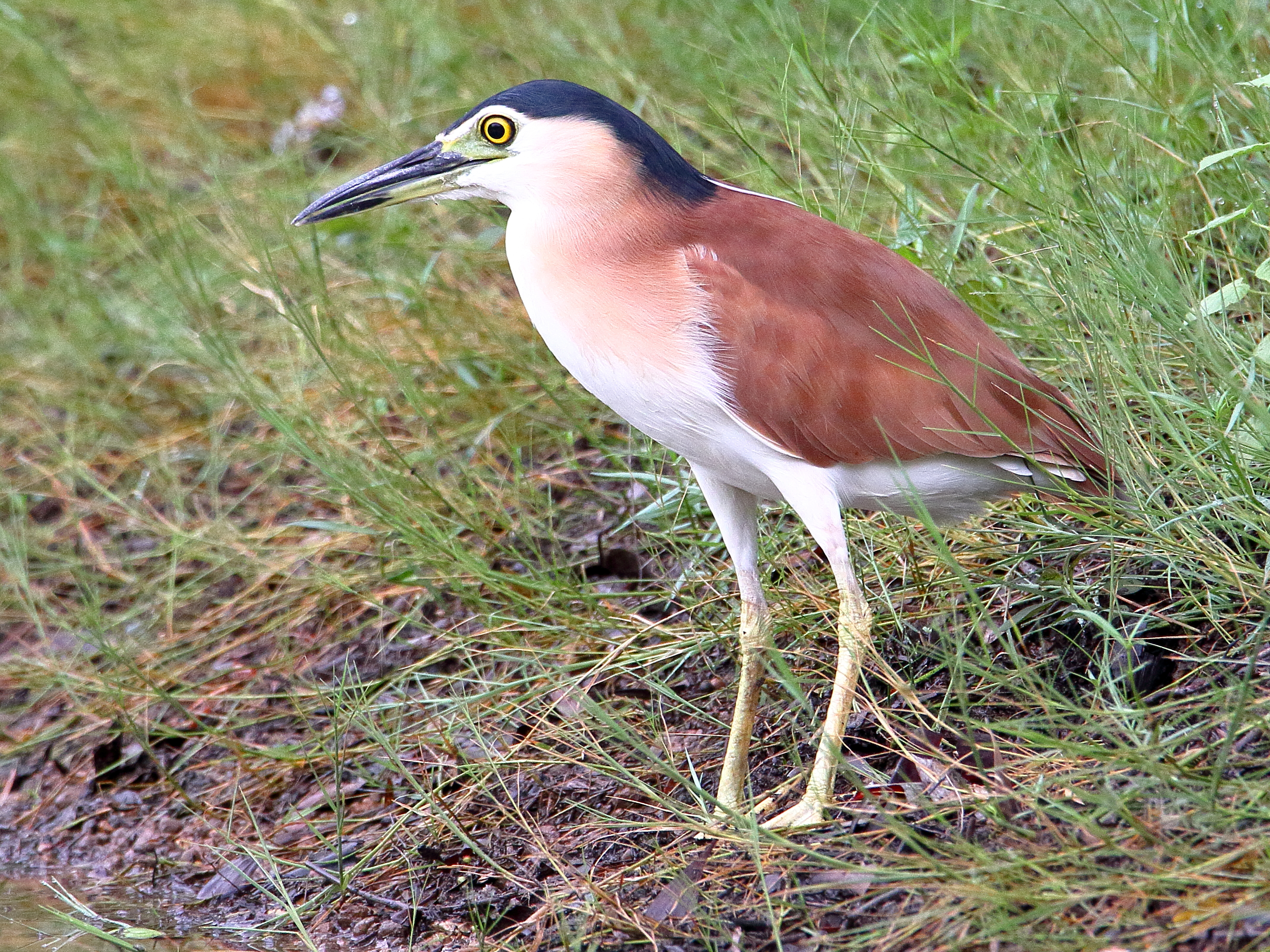 Nankeen Night-heron (Nycticorax caledonicus) at Marlow lagoon, Darwin, Northern Territory